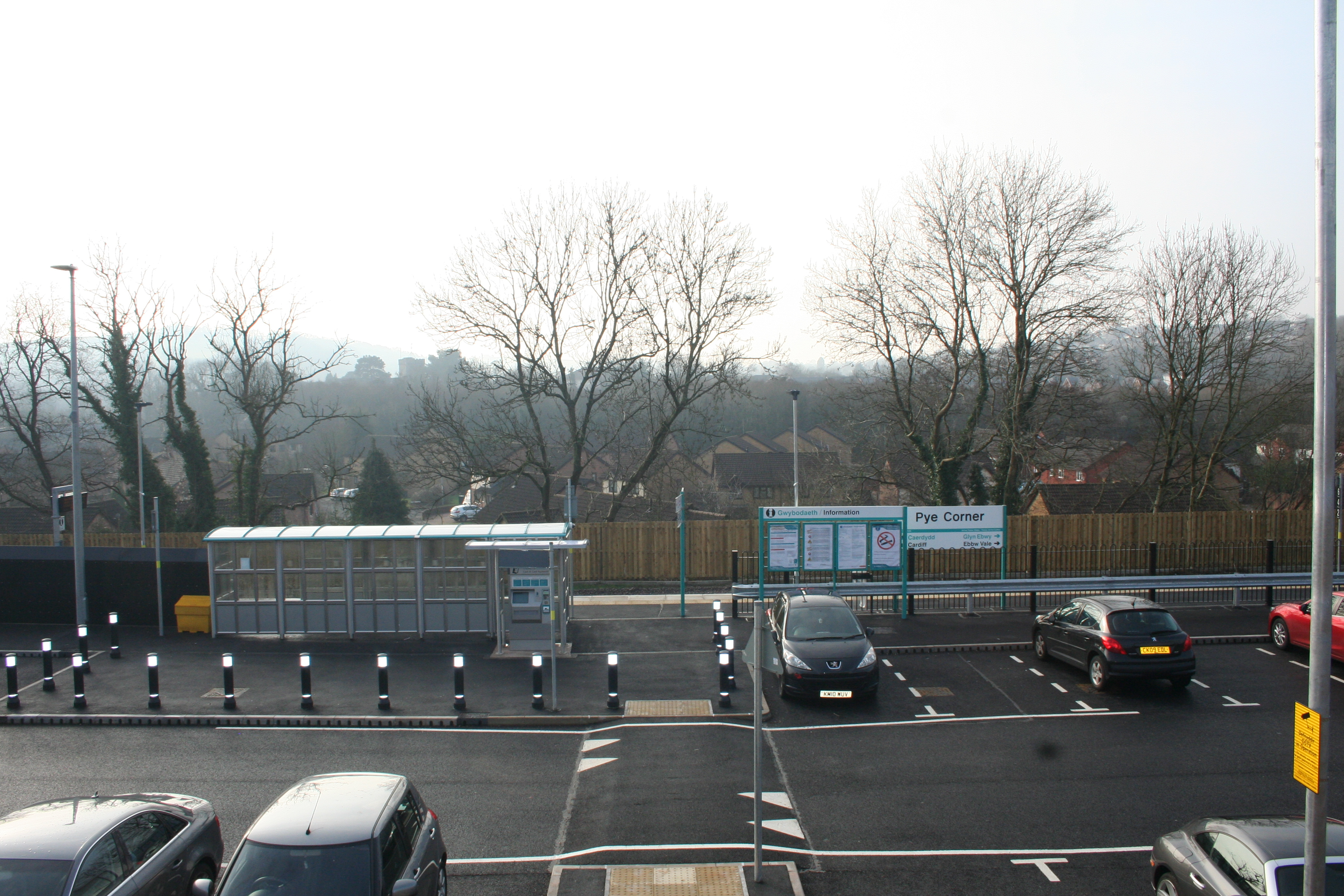 Pye Corner Station as viewed on 23rd January 2015